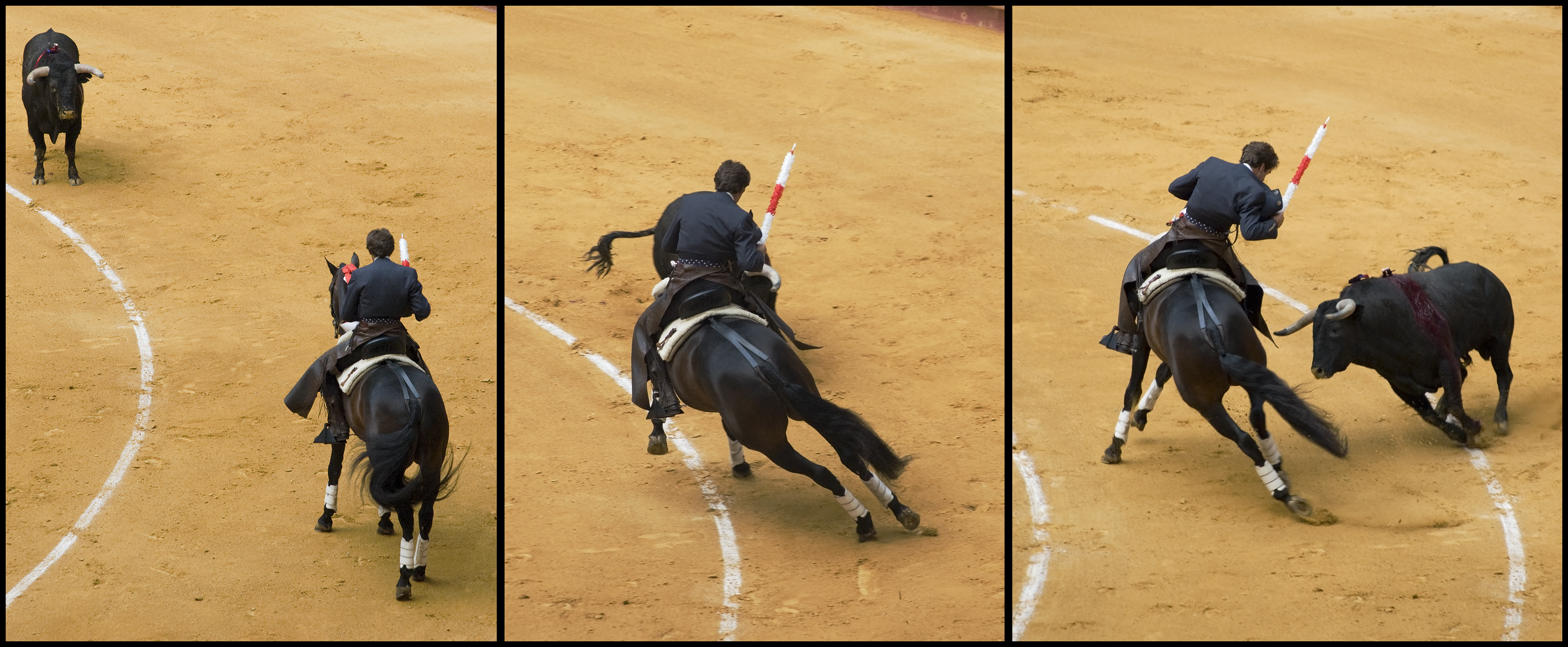 Rejoneo: Pablo Hermoso de Mendoza performing at the Ilunbe bullring in Donostia-San Sebastián, during Aste Nagusia 2007.